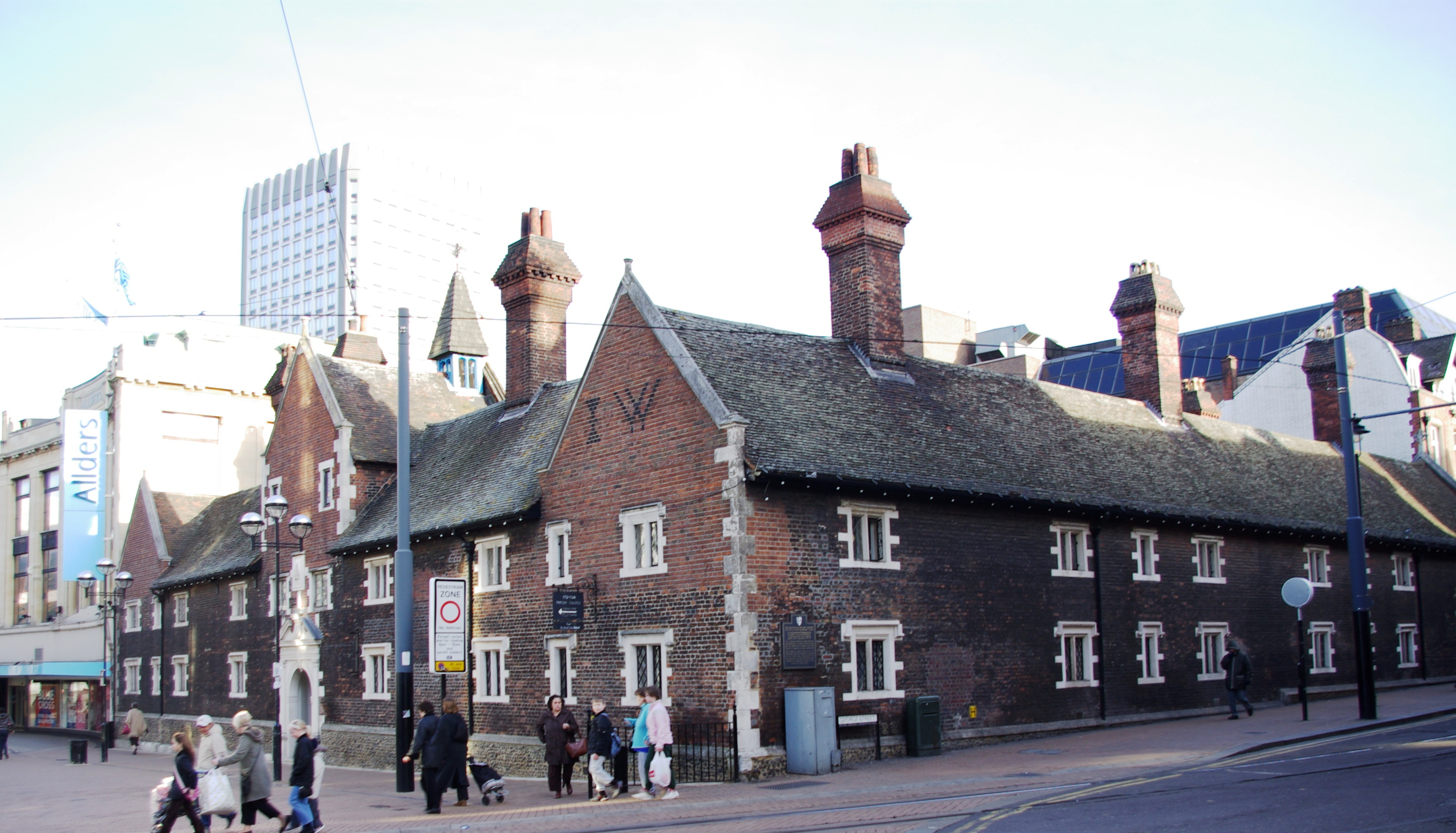 The "Whitgift Hospital" almshouses, central Croydon (Greater London)